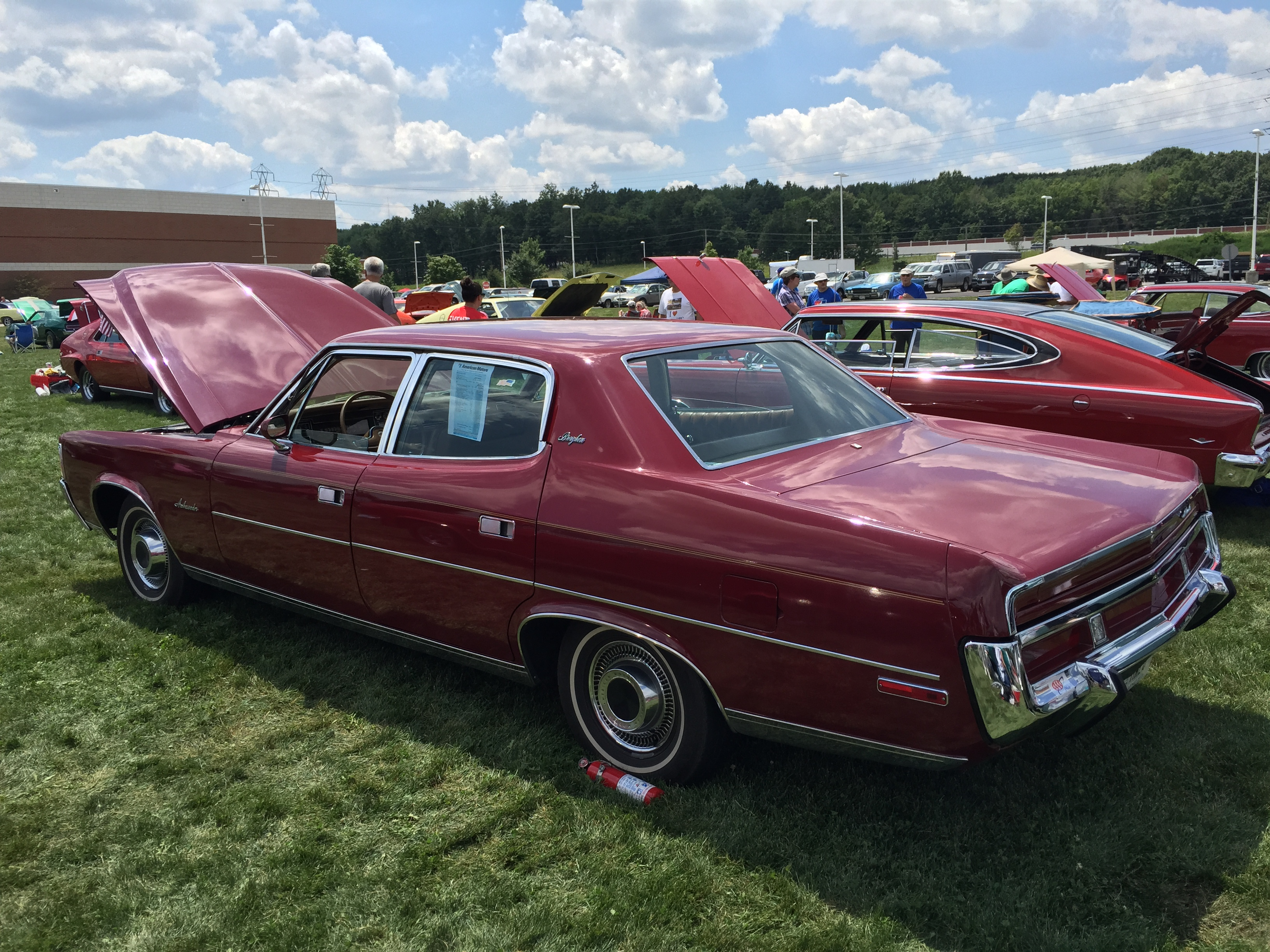 1972 AMC Ambassador Brougham (built by American Motors Corporation) four-door sedan finished in Sparkling Burgundy. Standard features included AMC's 304 CID (5 L) V8 engine, automatic transmission, and air conditioning. Picture taken at the American Motors Owners Association (AMO) annual convention that was held July 2015 near Cleveland, Ohio.